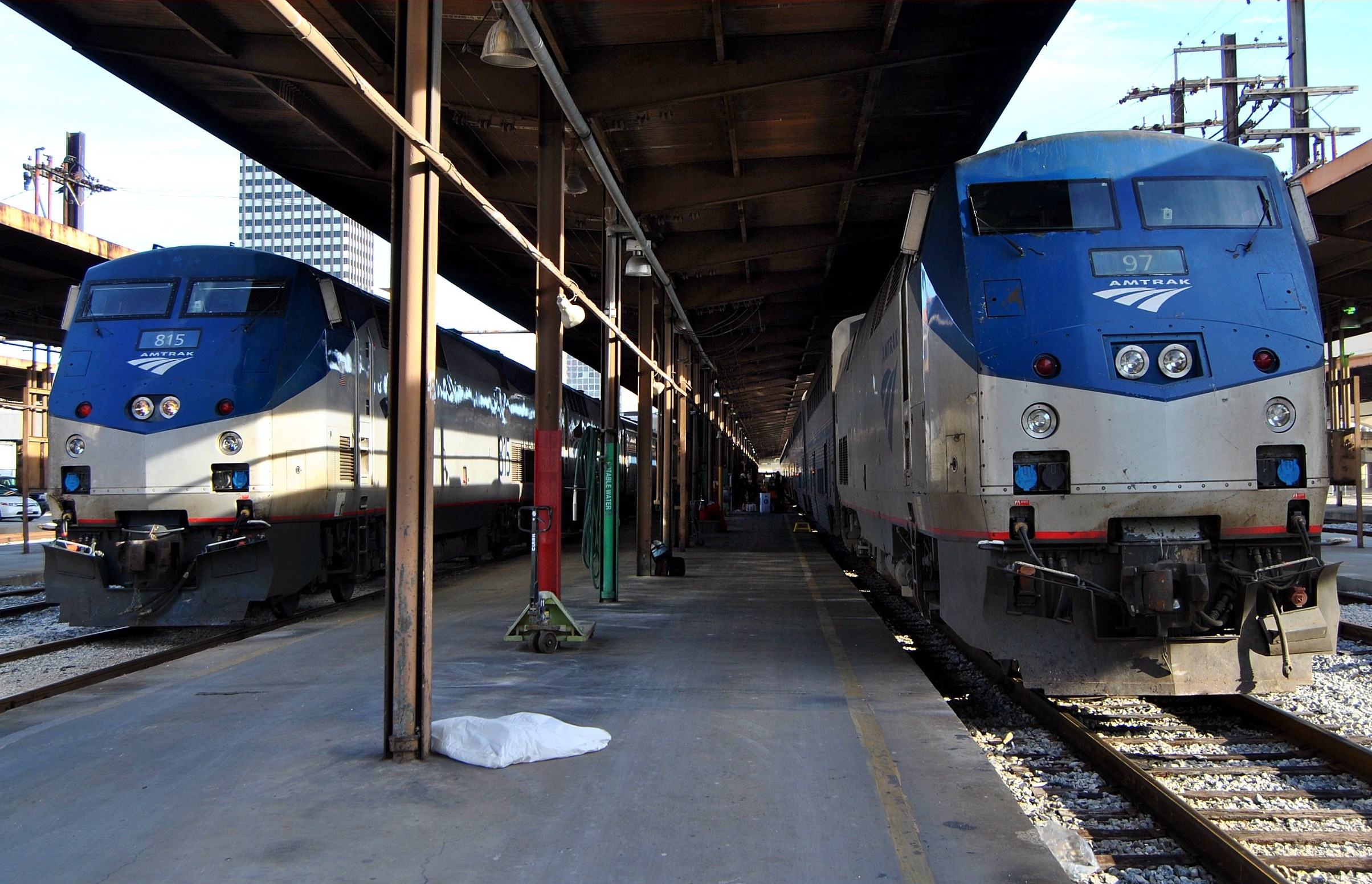 Having just arrived on the "City of New Orleans" (right) from Chicago, I took this shot of it parked next to the "Sunset Limited", before it leaves for its trip to Los Angeles.